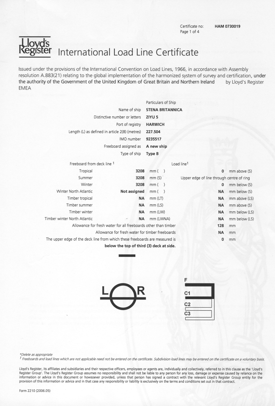 Example of a Load Line Certificate